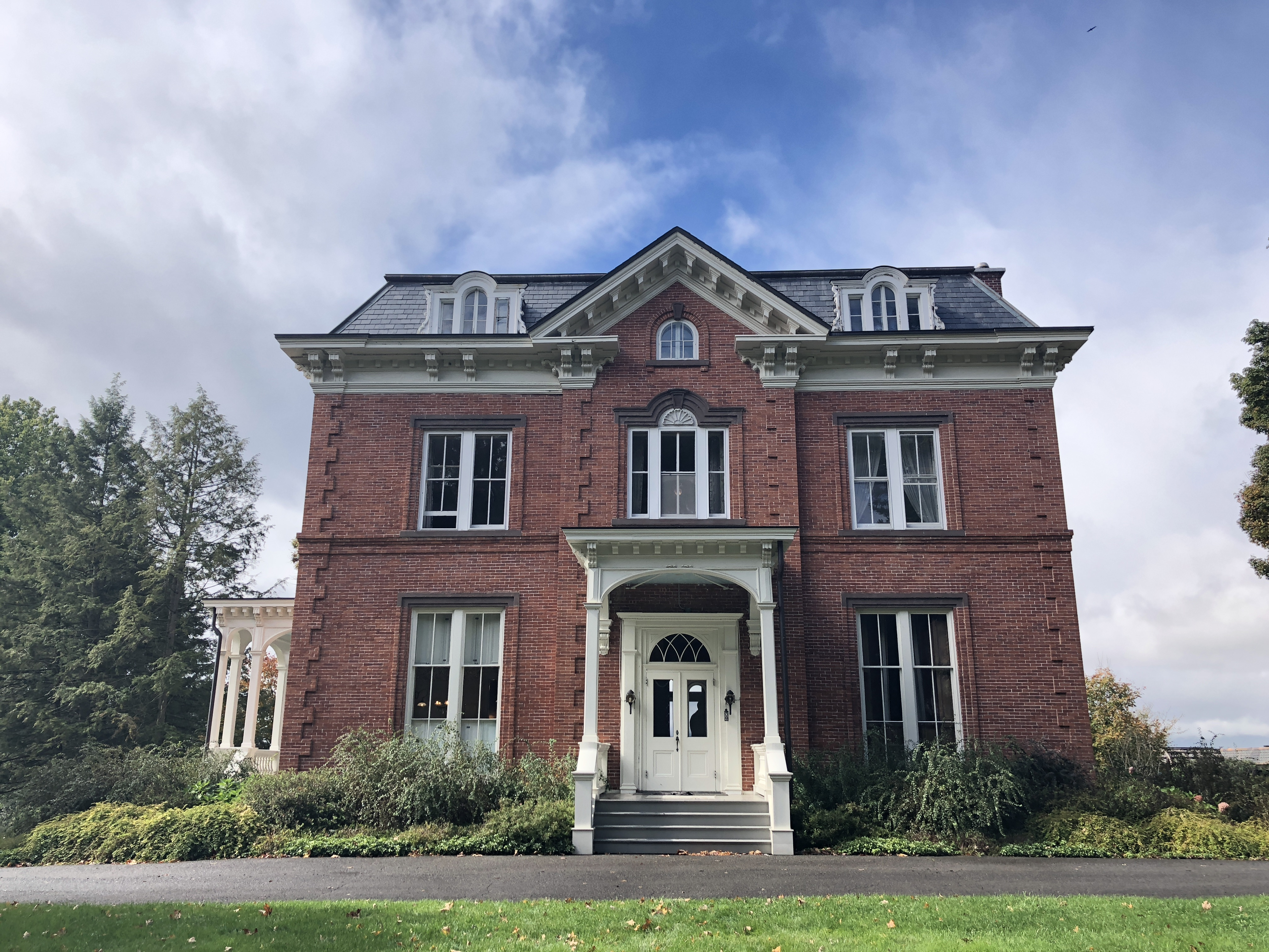 Back of Chiddingstone (1860) in New York (October 2018)